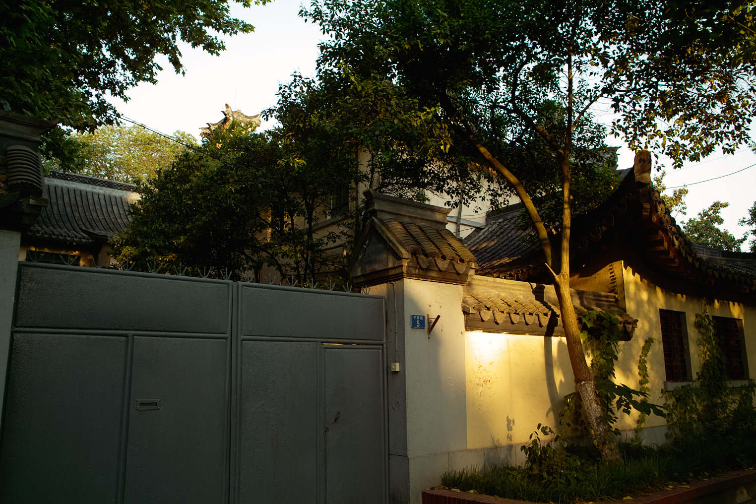 Ninghai Road 5, George Catlett Marshall's residence 中文（中国大陆）: 宁海路5号，以前是马歇尔公馆，现为南京军区私人住宅。